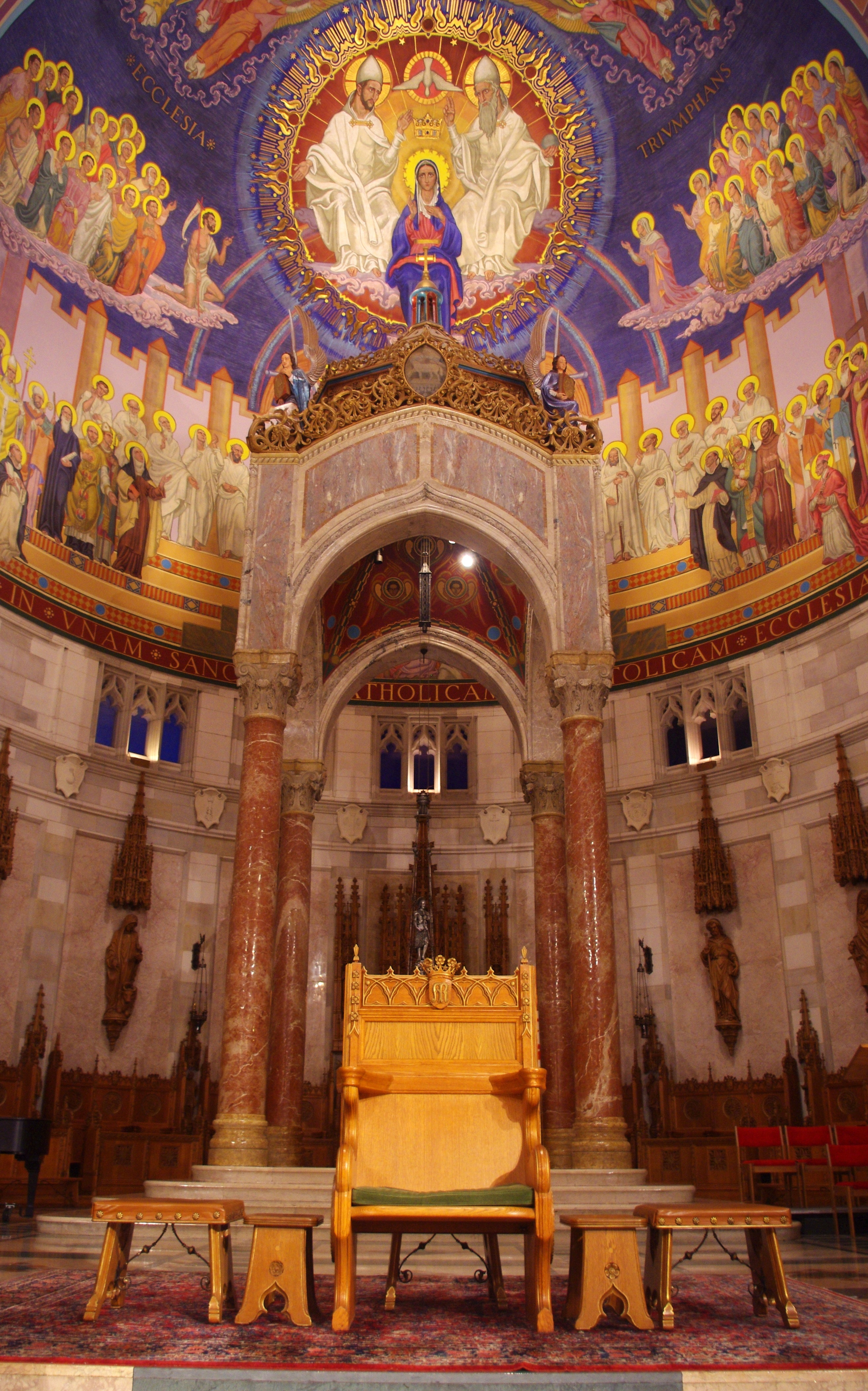 Our Lady, Queen of the Most Holy Rosary Cathedral (Toledo, Ohio) - bishop's chair